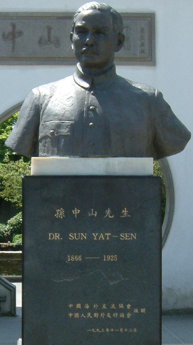 Sun Yat-sen. Büste vor dem Dr. Sun Yat-sen Classical Chinese Garden in Vancouver (Kanada, British Columbia)